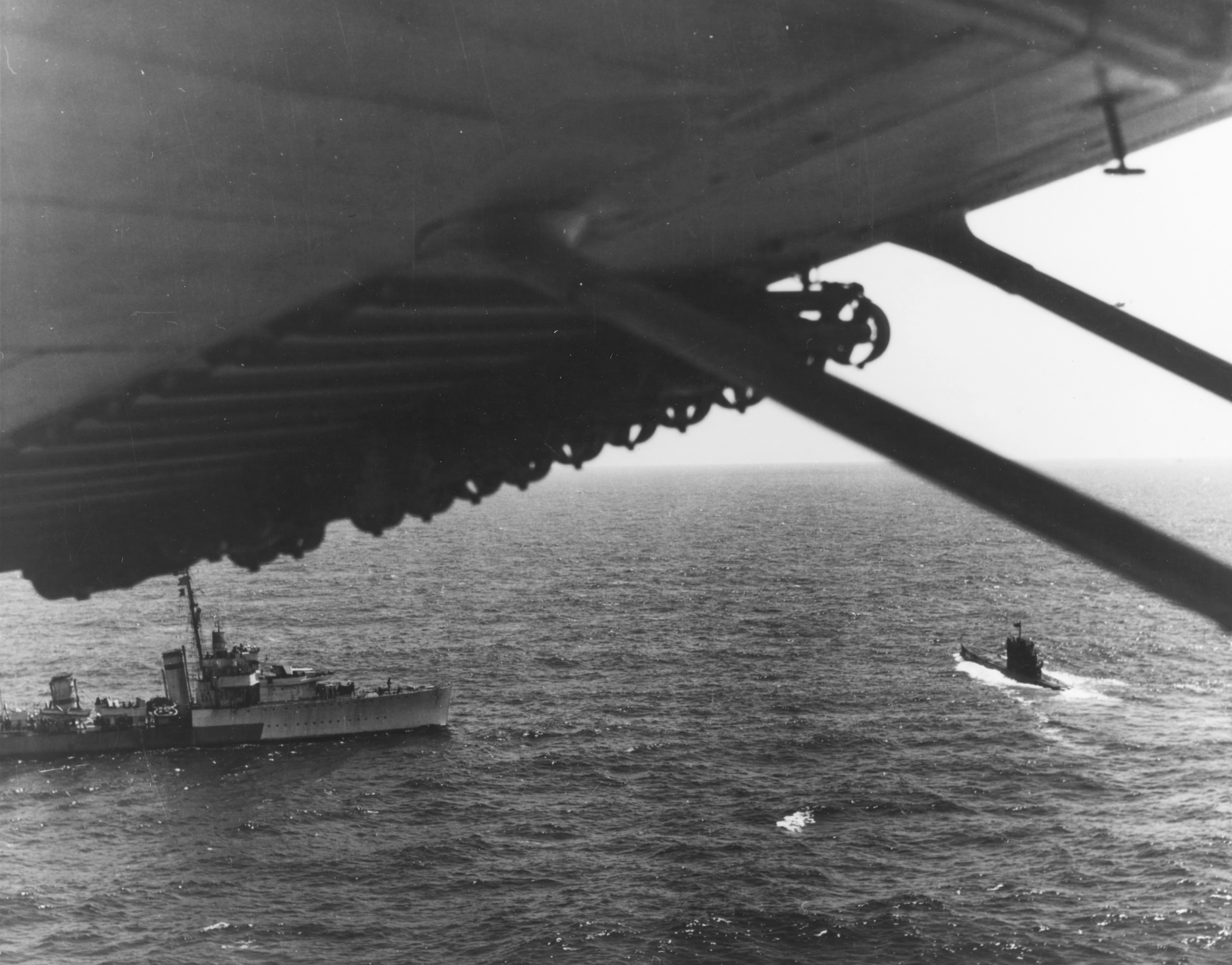 The Royal Navy destroyer HMS Malcolm (I19) receiving the surrender of the German submarine U-541 in the Atlantic Ocean, west of Cape St. Vincent, Spain, on 11 May 1945.The photo was taken from a U.S. Navy Consolidated PBY-5A Catalina of Patrol Bombing Squadron 63 (VPB-63), piloted by Lieutenant W.D. Ray, from Naval Air Station Port Lyautey, Morocco. Note the retrobomb anti-submarine rockets under the plane's wing, mounted to fire backwards.